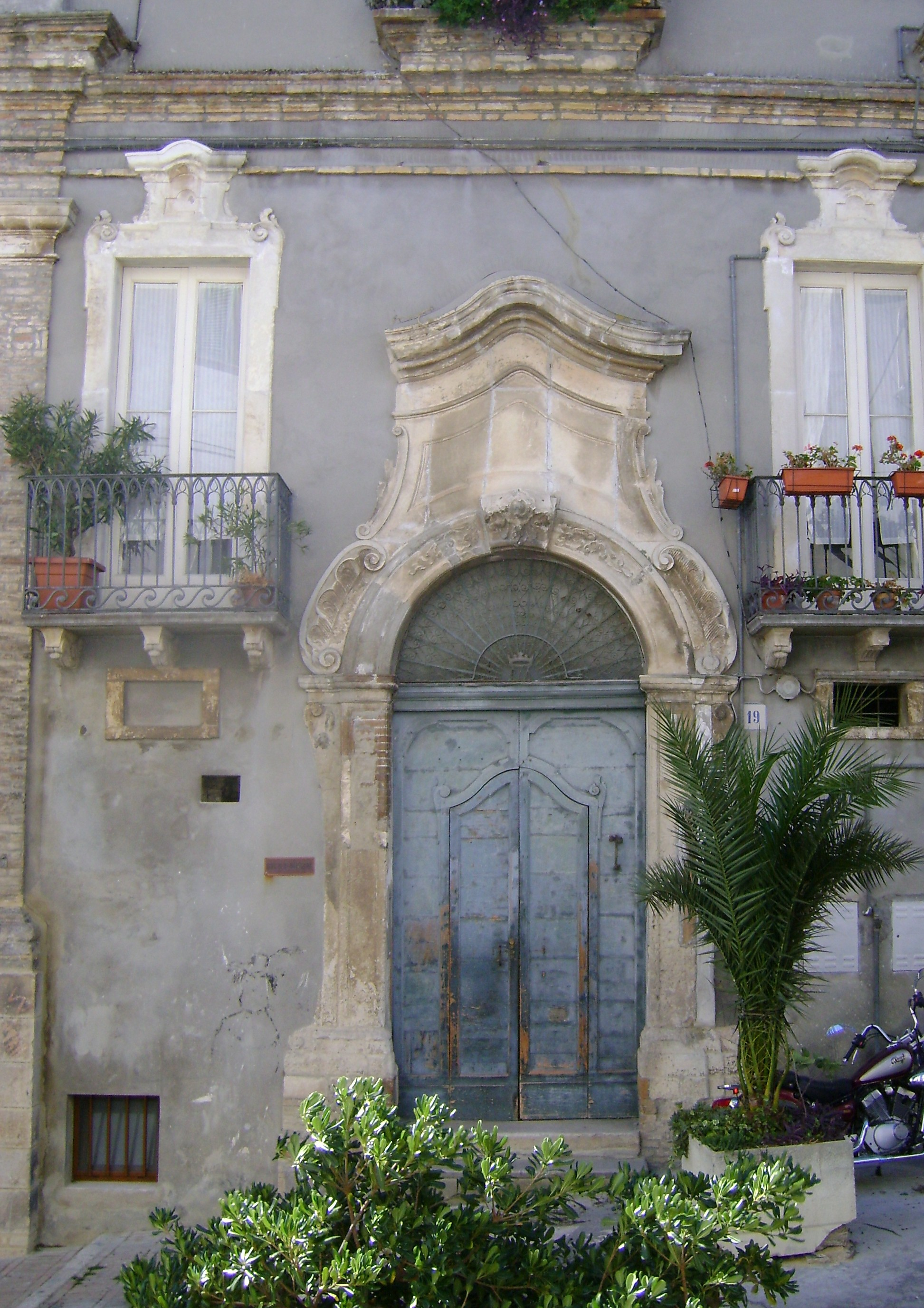 The first level of the façade of the Palace Marcolongo to Atessa